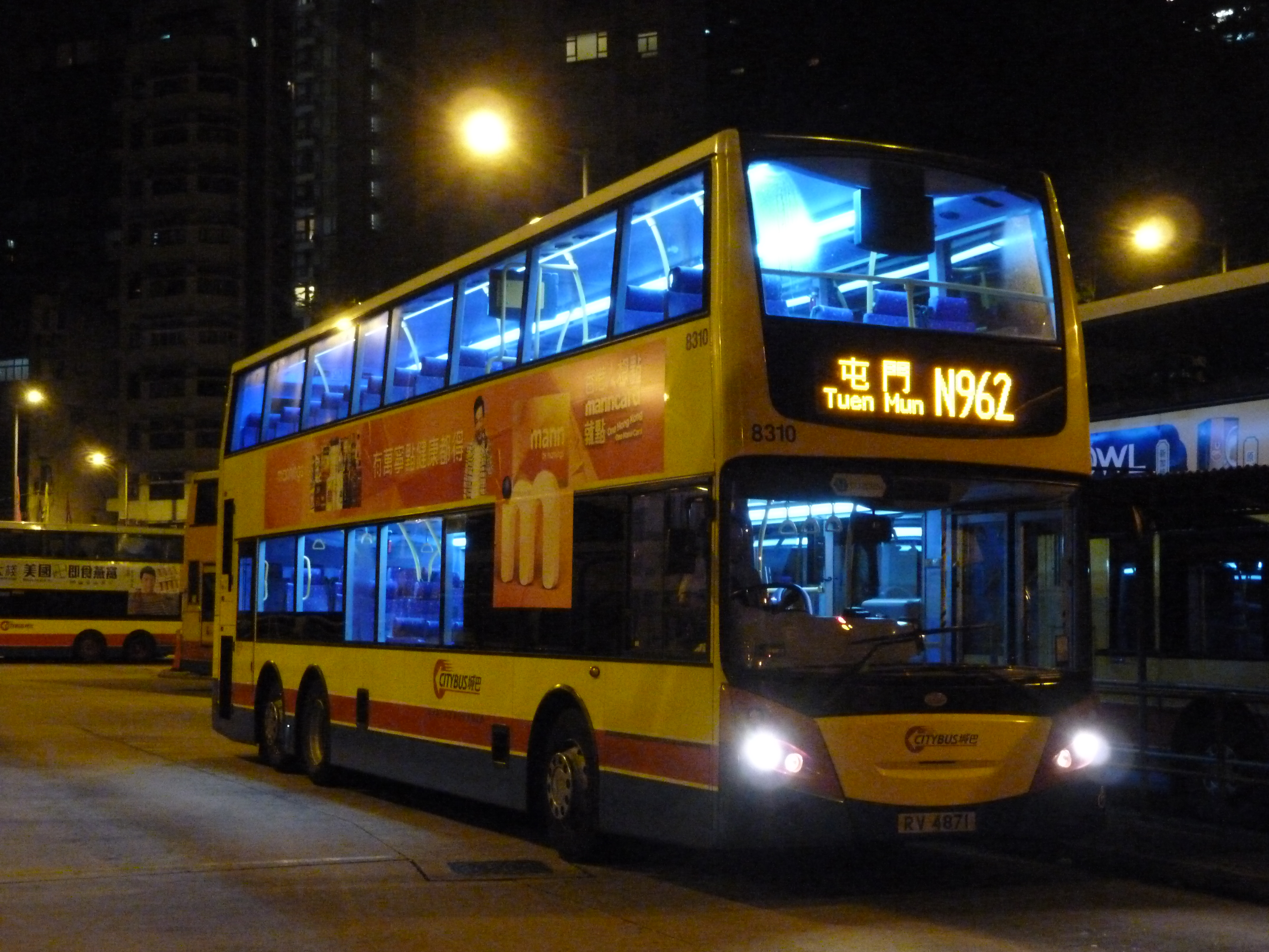 Citybus Route N962 (Causeway Bay (Moreton Terrace) Bus Terminus)中文（香港）: 城巴N962線 (銅鑼灣（摩頓台）巴士總站)